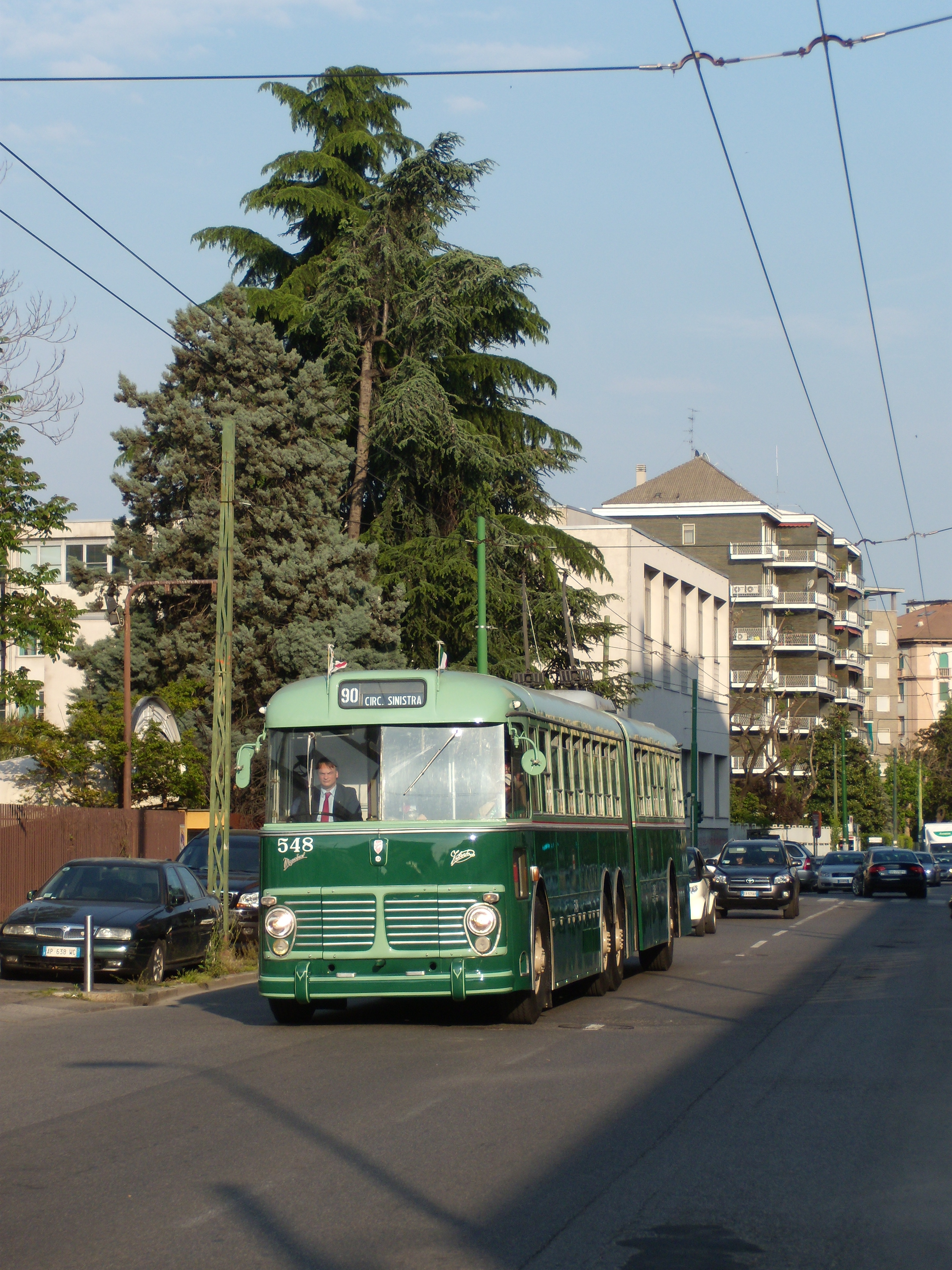 Restored Milan trolleybus 548, a 1958 Fiat 2472 with Viberti body and CGE electrical equipment, in via Tertulliano, on a special excursion. The last vehicles of this type were withdrawn from service in January 1997. No. 548 was restored to original condition and livery in 2008/9.